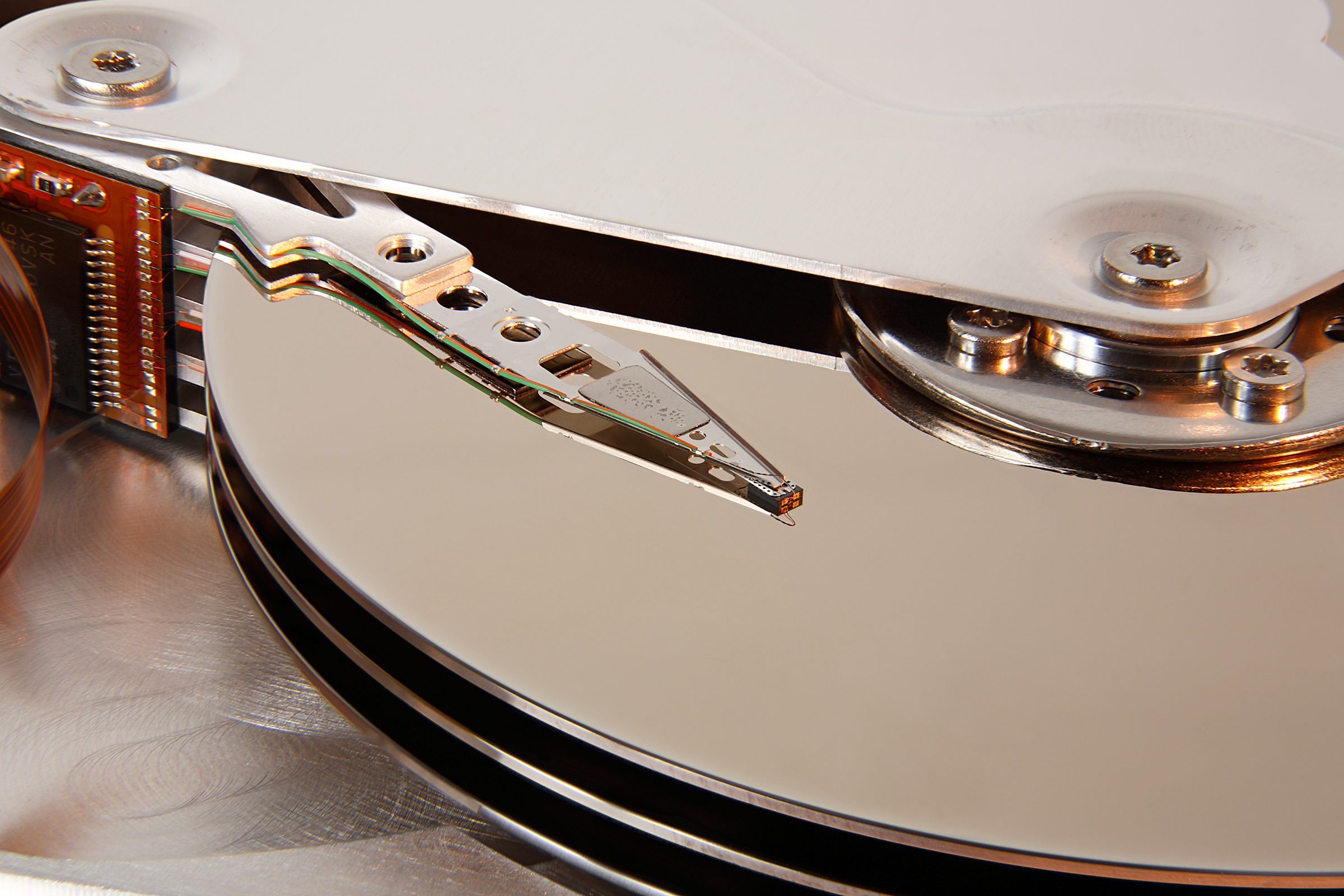 Detail of one read/write head and the platters of a Seagate 3.5 inches hard disk drive Medalist ST33232A model manufactured in Malaysia in 1998. Parallel ATA interface, ultra DMA mode 2, I/O data-transfer rate 33.3 MB/s max, 3,227 MB, 3 platters, 6 physical read/write heads, spindle speed 4,500 RPM, cache buffer 128 kB, MTBF 300,000 hours, dimensions 146.8 x 102.4 x 26.2 mm, weight 540 grams.